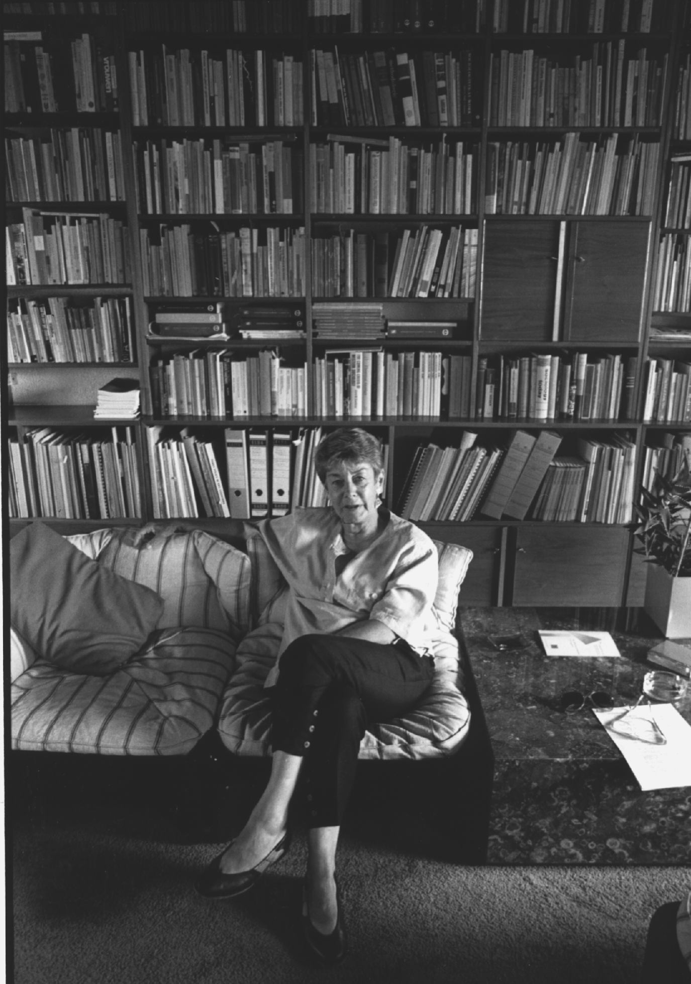 Henny Langeveld in 1990s.